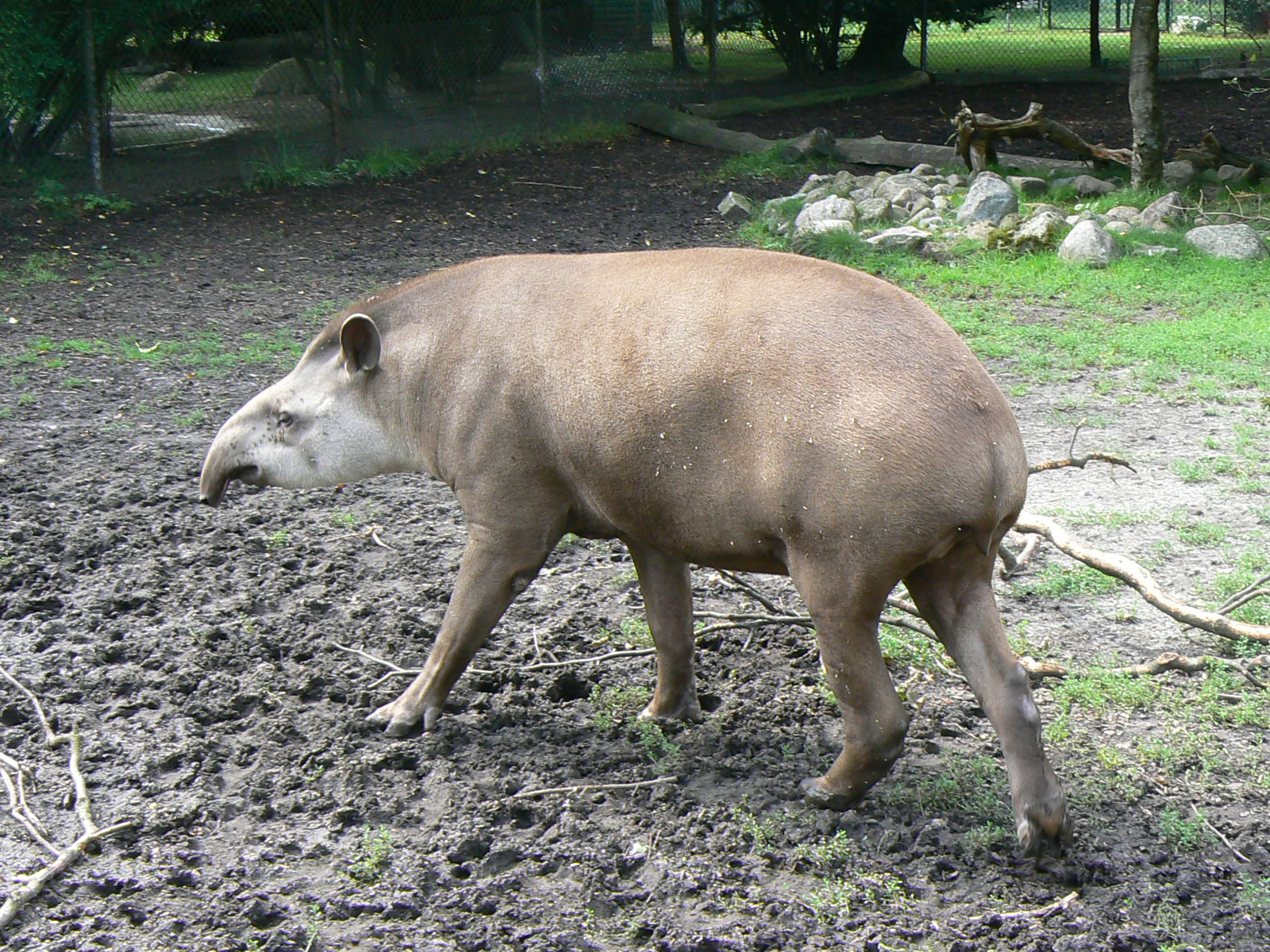 brazilian tapir / tapirus terrestris / south american tapir / flachlandtapir